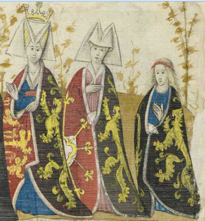 Daughters of Godfrey I of Leuven